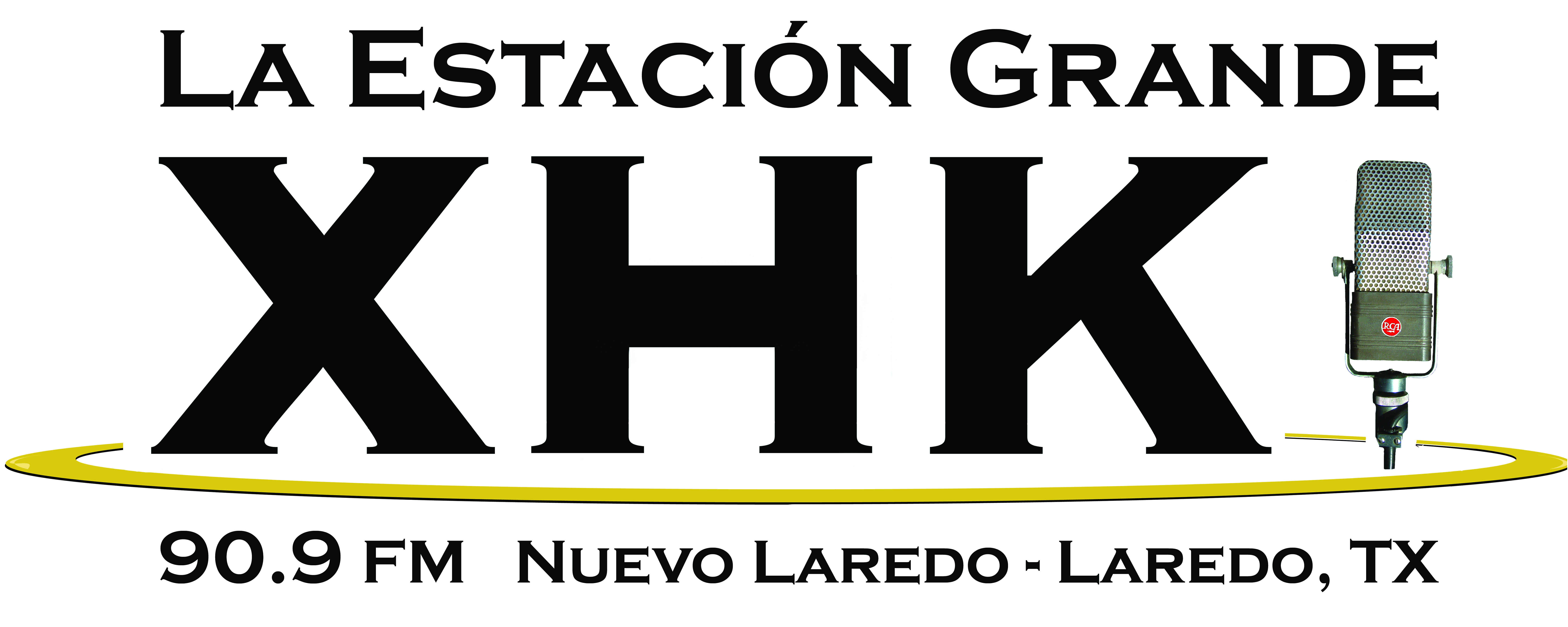 XHK logo Replacing XEK Logo